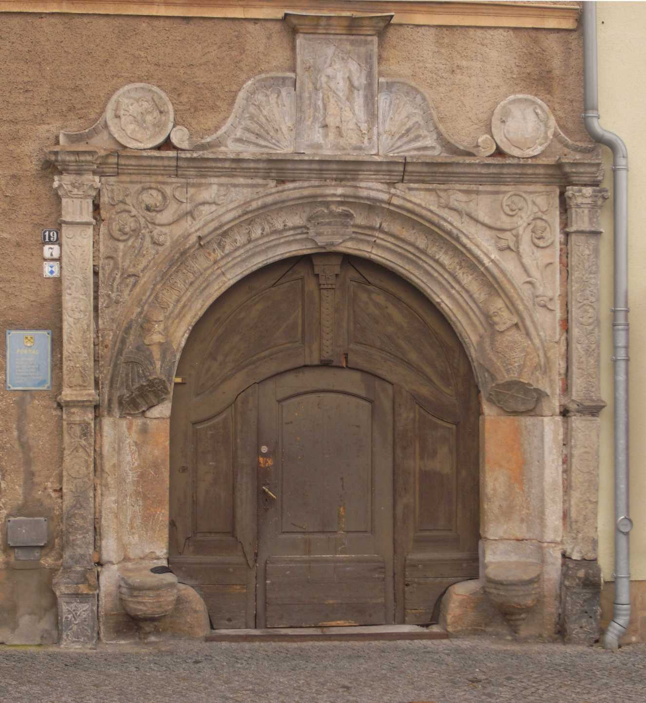 Dippoldiswalde, Markt 7, Maltitz-House Renaissance portal (1543), cretaceous sandstone